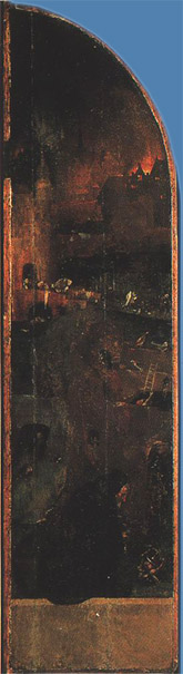 Left inner wing of the Triptych of the Crucified Martyr.